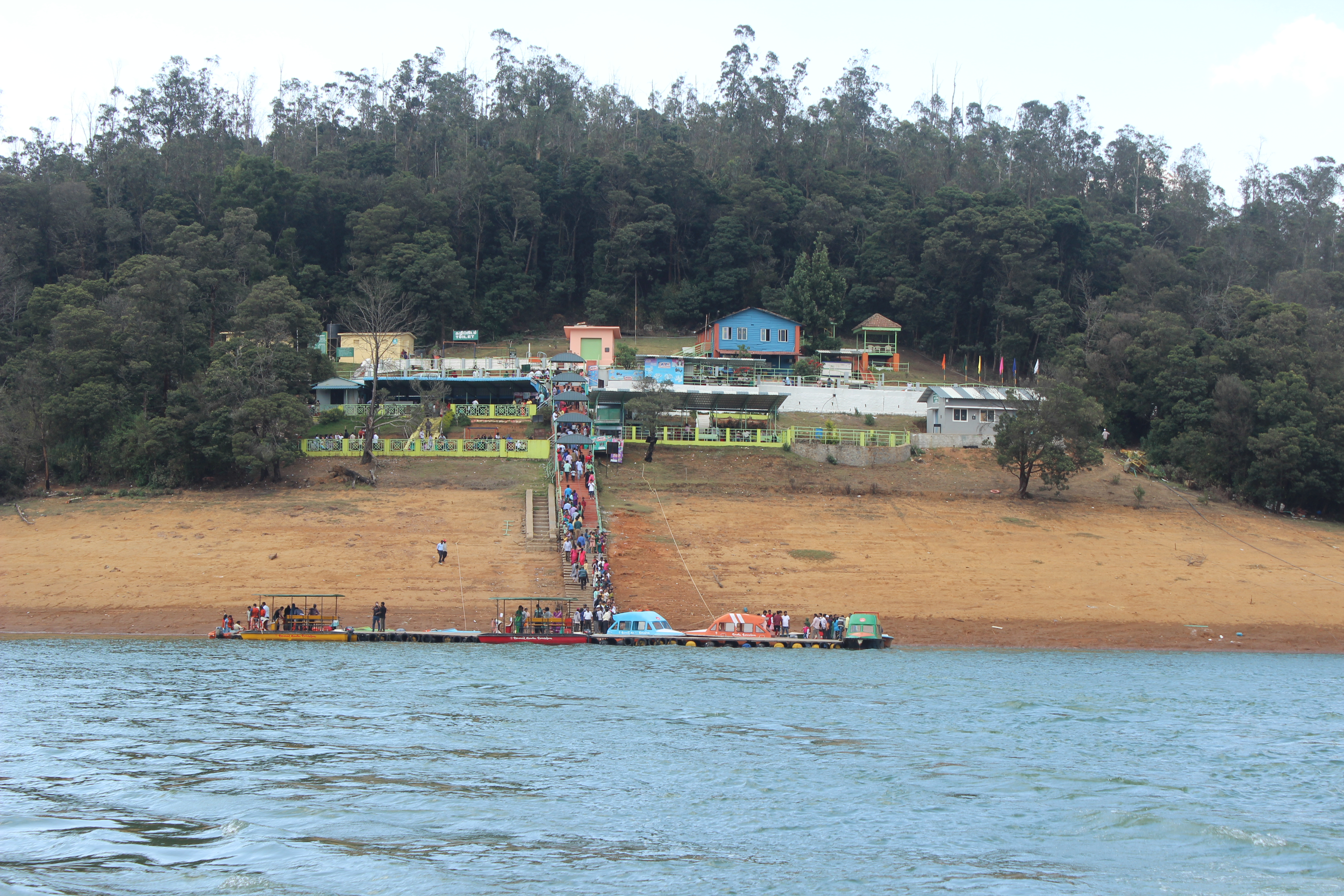 Boating in Pykara Lake in Ooty, Tamil Nadu